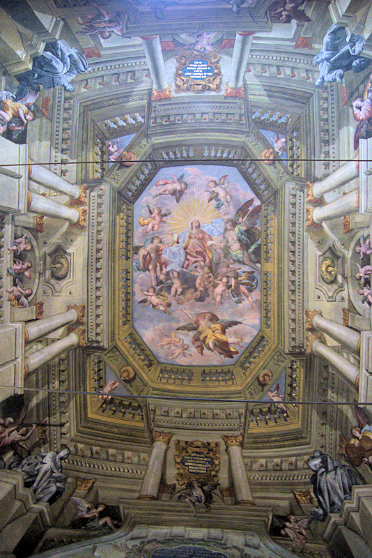 The Assumption of Mary by Gian Giacomo Barbelli, sanctuary of Madonna delle Grazie, Crema, Italy